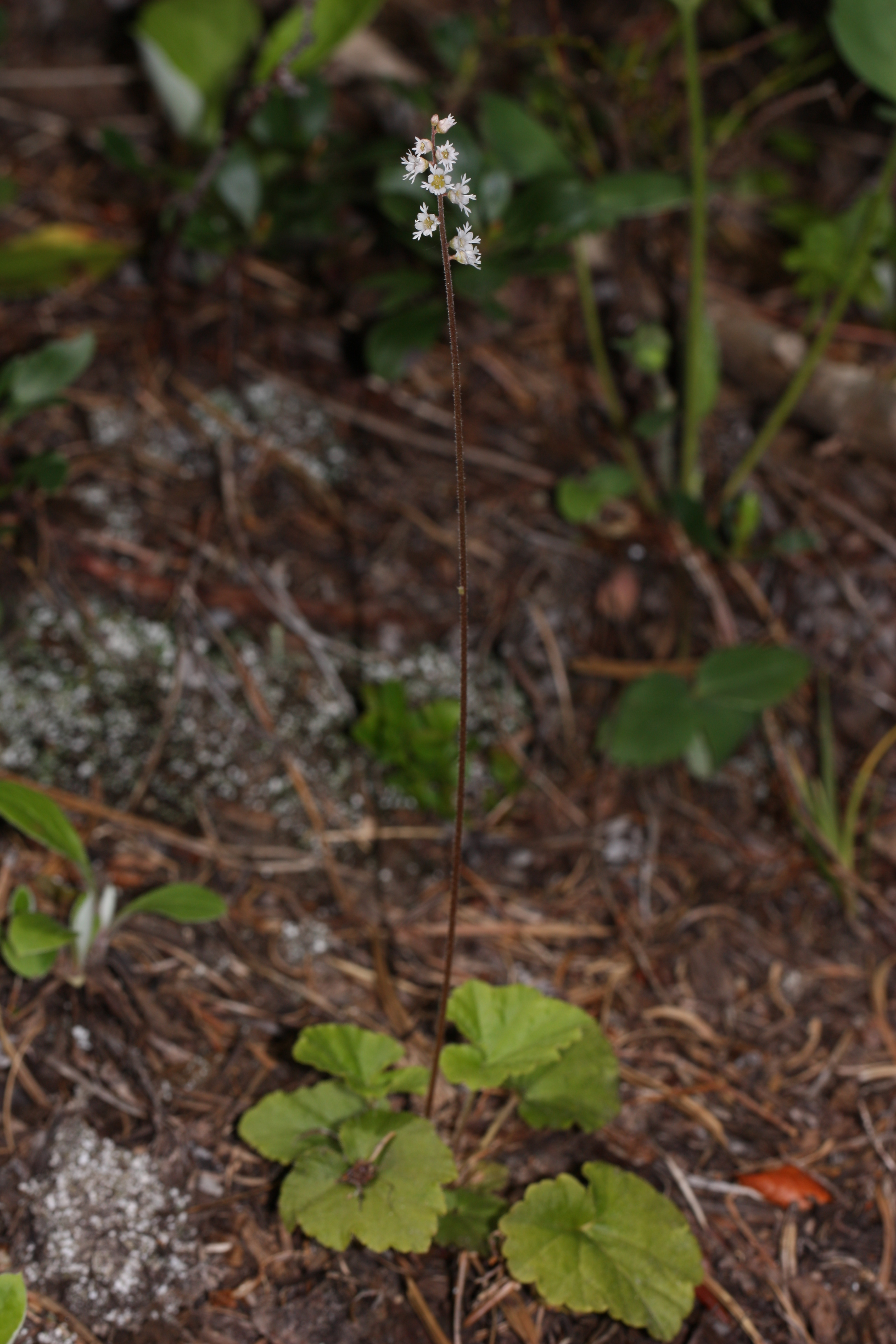 Three-parted Miterwort, Three-toothed Mitrewort Viewpoint location: Swauk Forest Discovery Trail, Wenatchee Mountains Viewpoint elevation: 1289 meter (4229 ft) Location source: Garmin GPSmap 60CSx Location Datum: WGS84